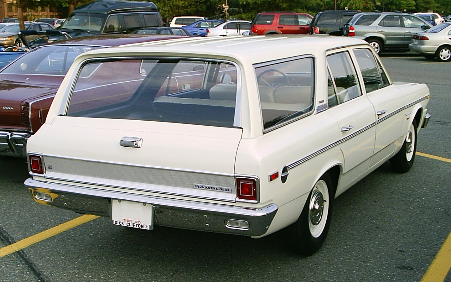 1968 Rambler American, a compact-sized four-door station wagon (with a roll-down rear window and drop-down tailgate) built by American Motors Corporation (AMC). This base model is in original factory condition. Picture taken at "cruise" to a shopping mall during the AMCRC (AMC Rambler Club) car meet that was held in Gaithersburg, Maryland, USA.